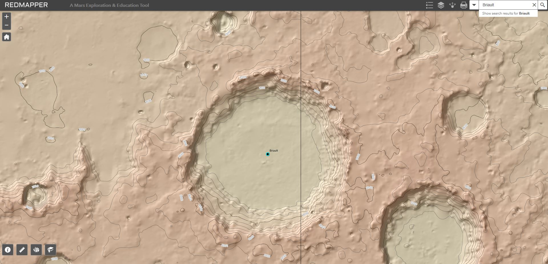 Briault impact crater is located at 10.2°S latitude and 270.4°W longitude and is 96.6 kilometers in diameter and has a 3,600 meter elevation difference between the height of the rim and the bottom of the basin.